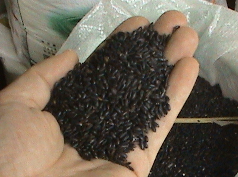 Black rice as sold in Haikou, Hainan, China